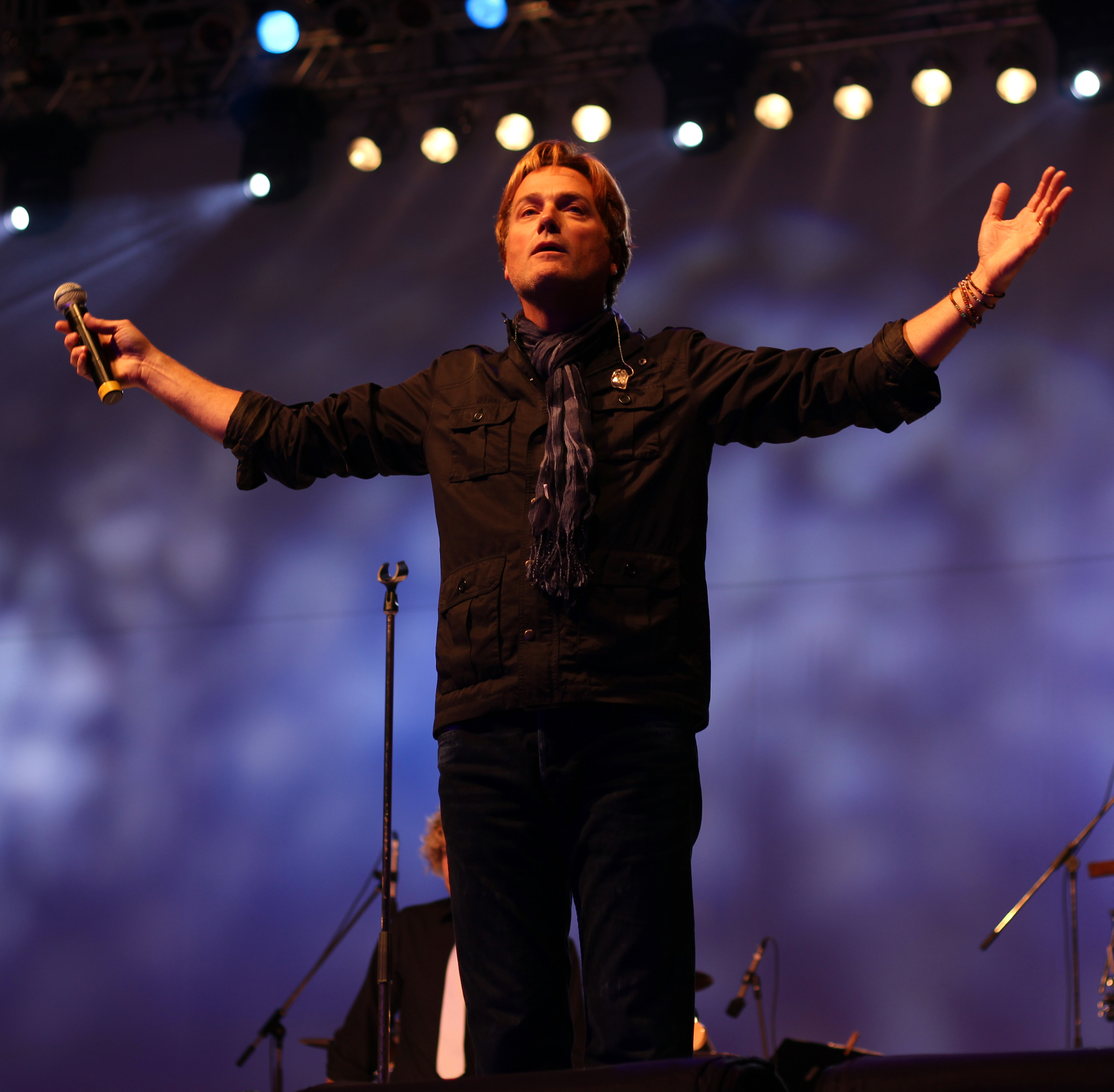 Michael W. Smith singing in South Africa in May 2010.